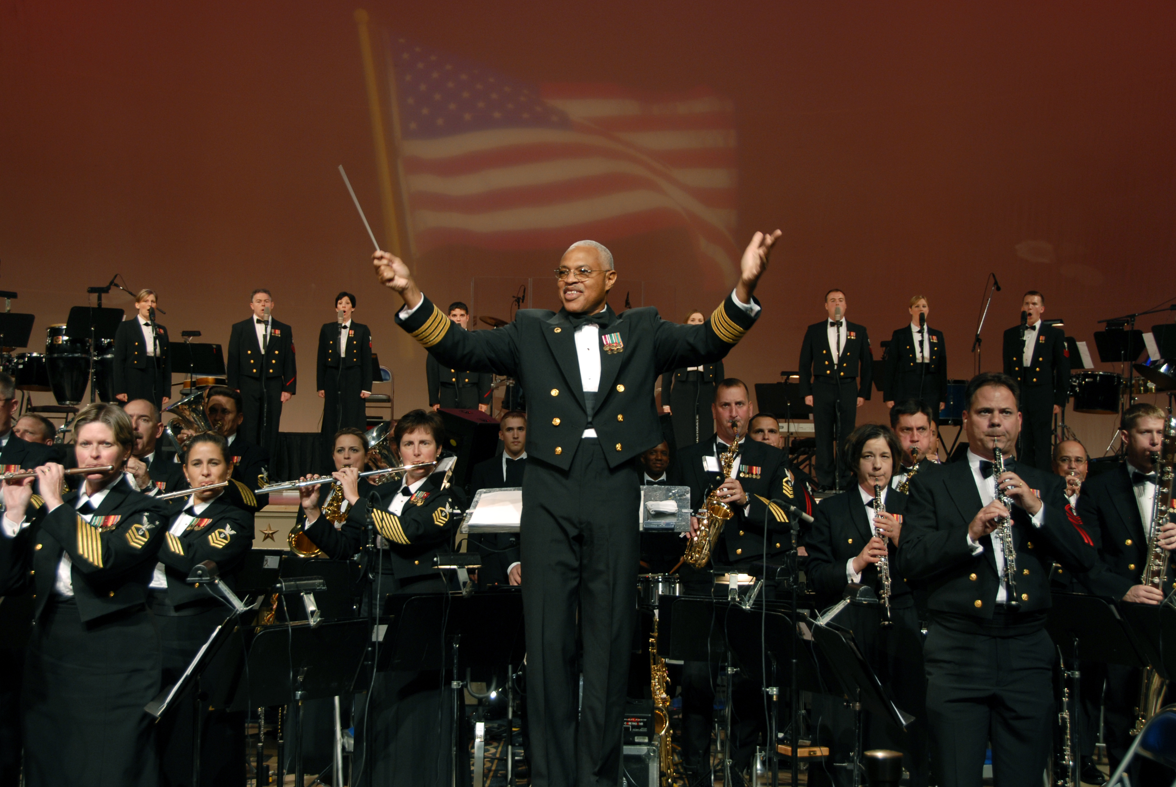 WASHINGTON (Oct. 18, 2008) Capt. George N. Thompson, commanding officer, leader of the United States Navy Band, concludes the Navy Band's performance of the 233rd Navy Birthday Concert at DAR Constitution Hall. The Navy Band presents a concert celebrating the United States Navy's Birthday every year, which is hosted by the Chief of Naval Operations. (U.S. Navy photo by Chief Musician Stephen Hassay/Released)